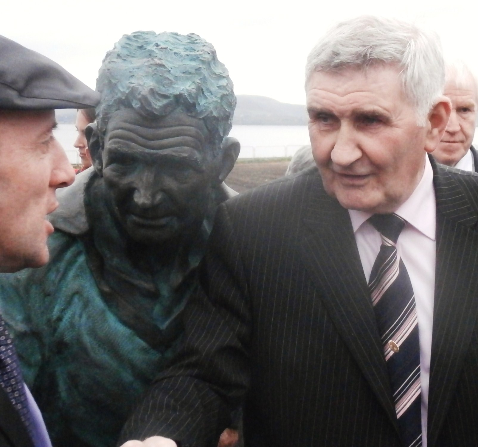 Mick O'Dwyer is congratulated by Deputy Michael Healy Rae, as Minister Jimmy Deenihan steps back. Minister Jimmy Deenihan unveiled Mick O'Dwyer's statue before a massive crowd that spread from the Bay View Hotel to the Villa Maria. Minister Deenihan, a legendary GAA footballer, learned a great deal from Mick O'Dwyer and his speech recalled great days of Kerry football.